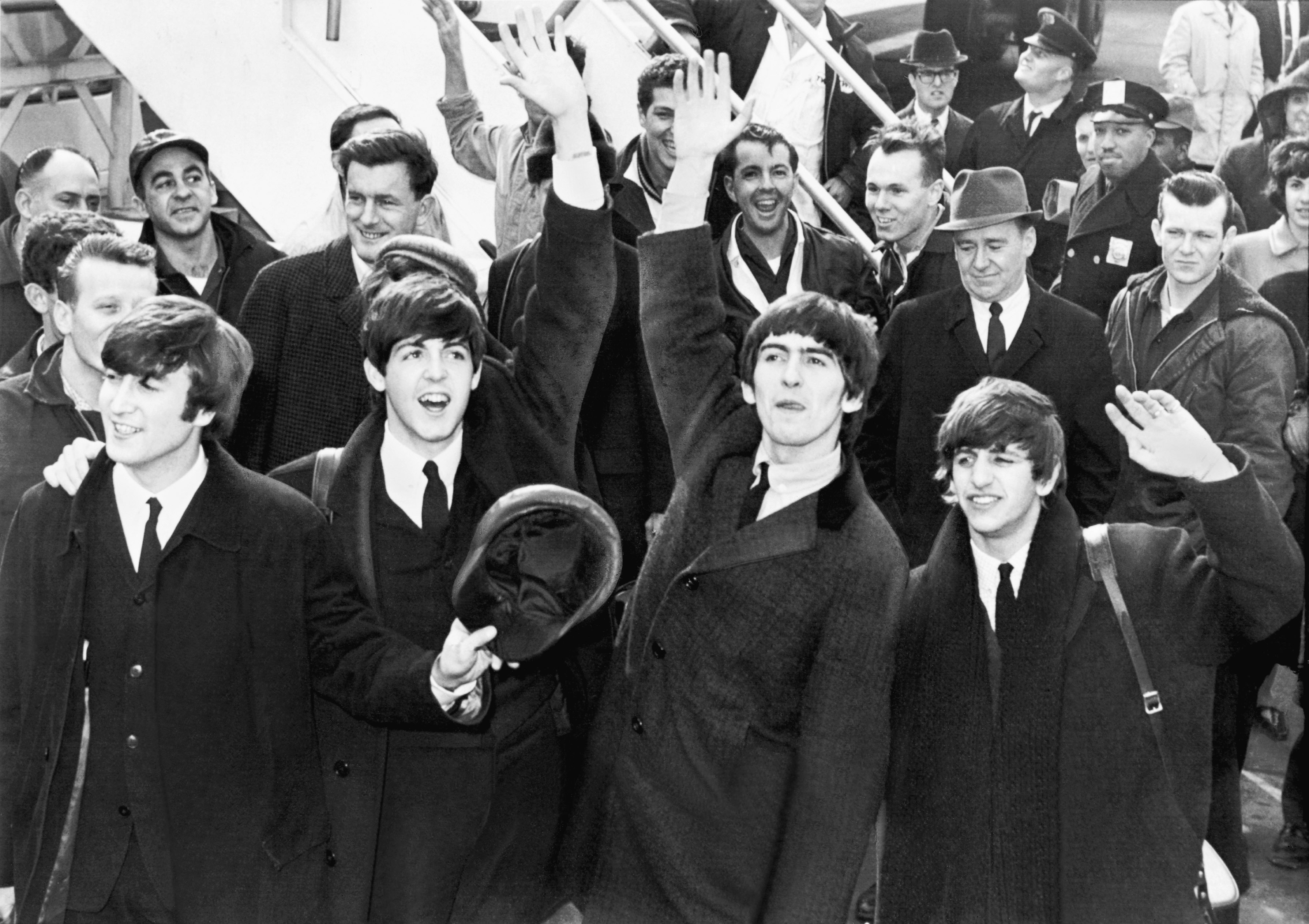 The Beatles arrive at JFK Airport